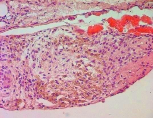 Siderophages in endometriotic focus. HE stain x 400: siderophages (brown spots) within endometriosic focus